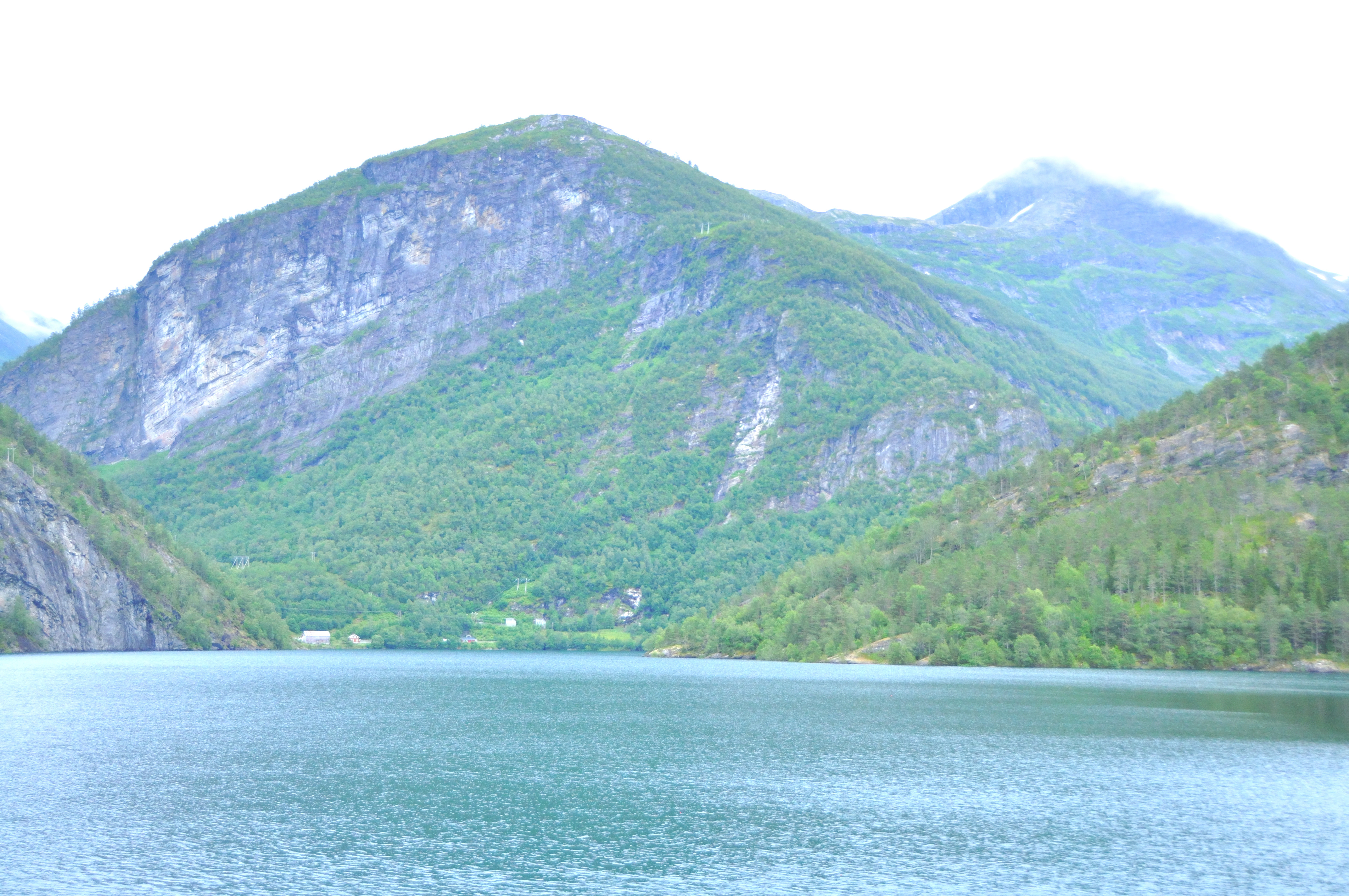 Onilsavatn lake is a reservoir for Tafjord Power plant no 1.